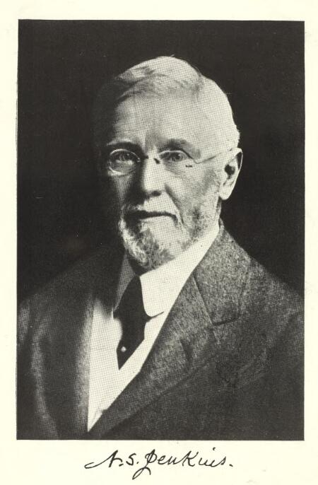 Dentist and inventor of Jenkins porcelain enamel and the Toothpaste Kolynos